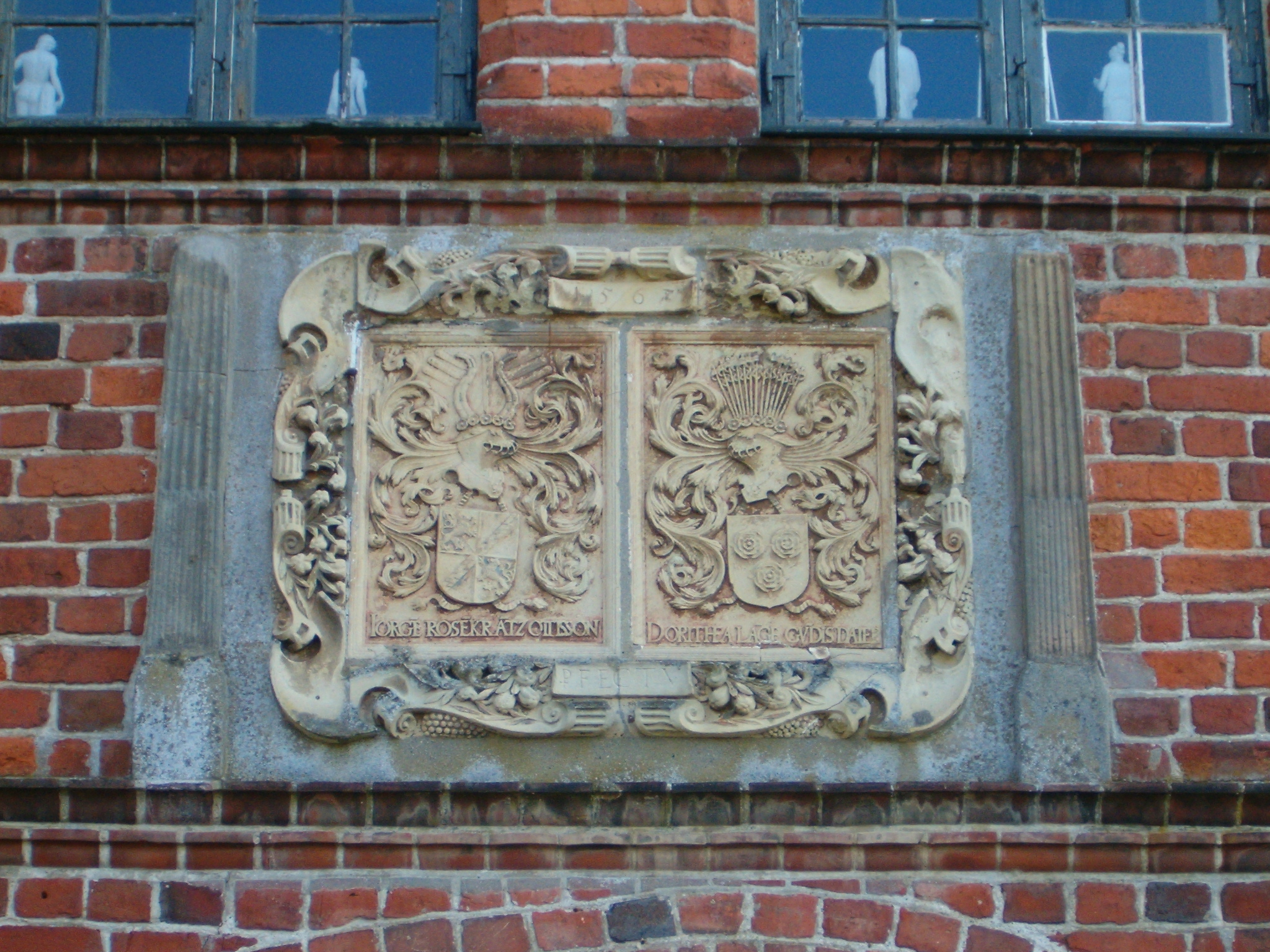 Rosenholm Slot (Castle), Jutland, Denmark. Sandstone plate above the main gate showing the coat of arms belonging to the founders